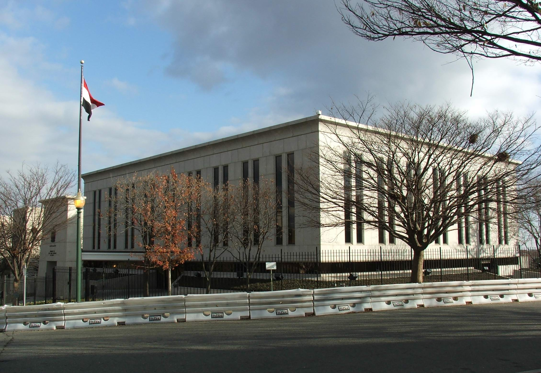 Embassy of Egypt in Washington, D.C. - United States.